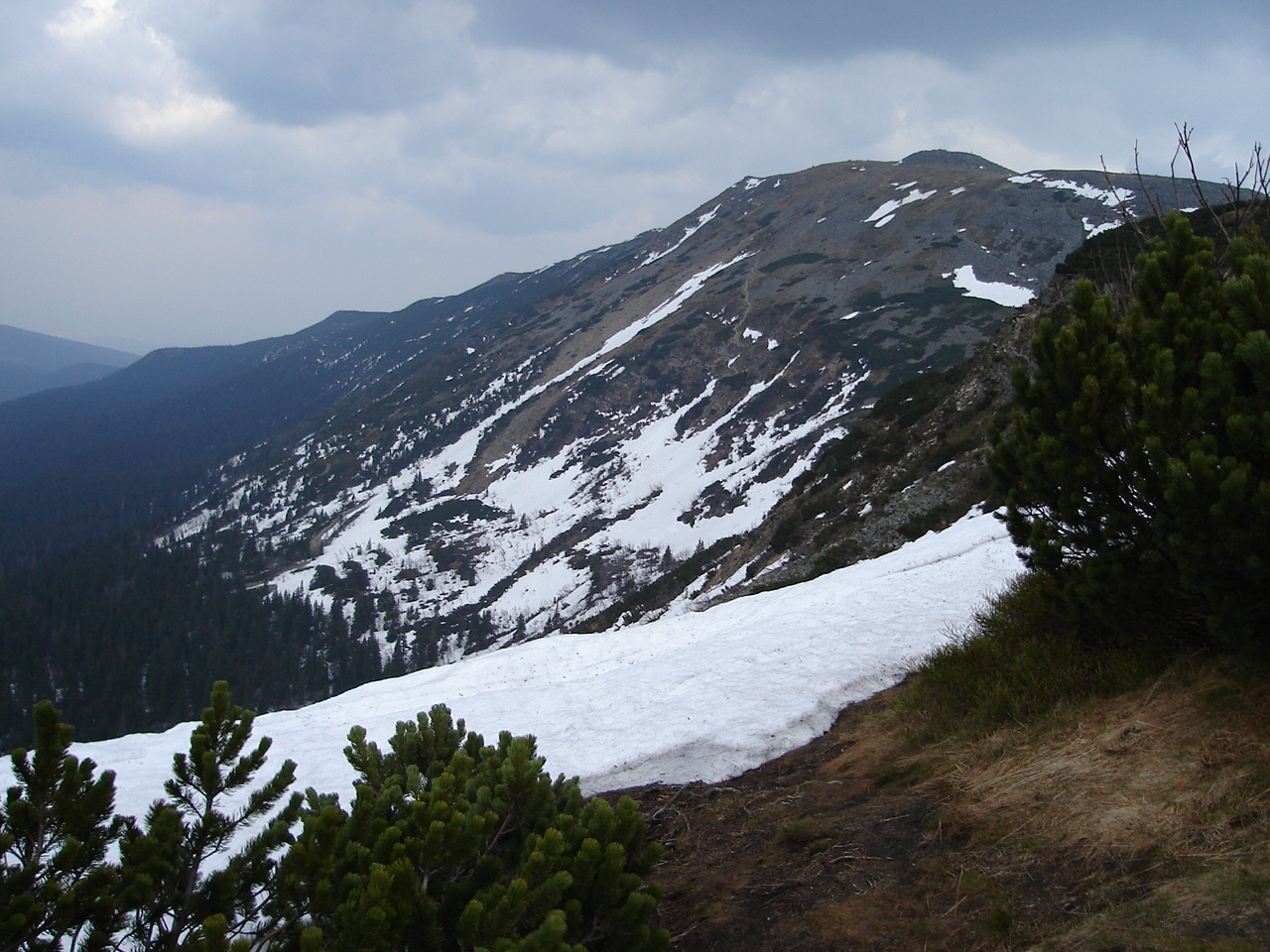 The northern slopes of Babia Góra, the mountain range in southern Poland.